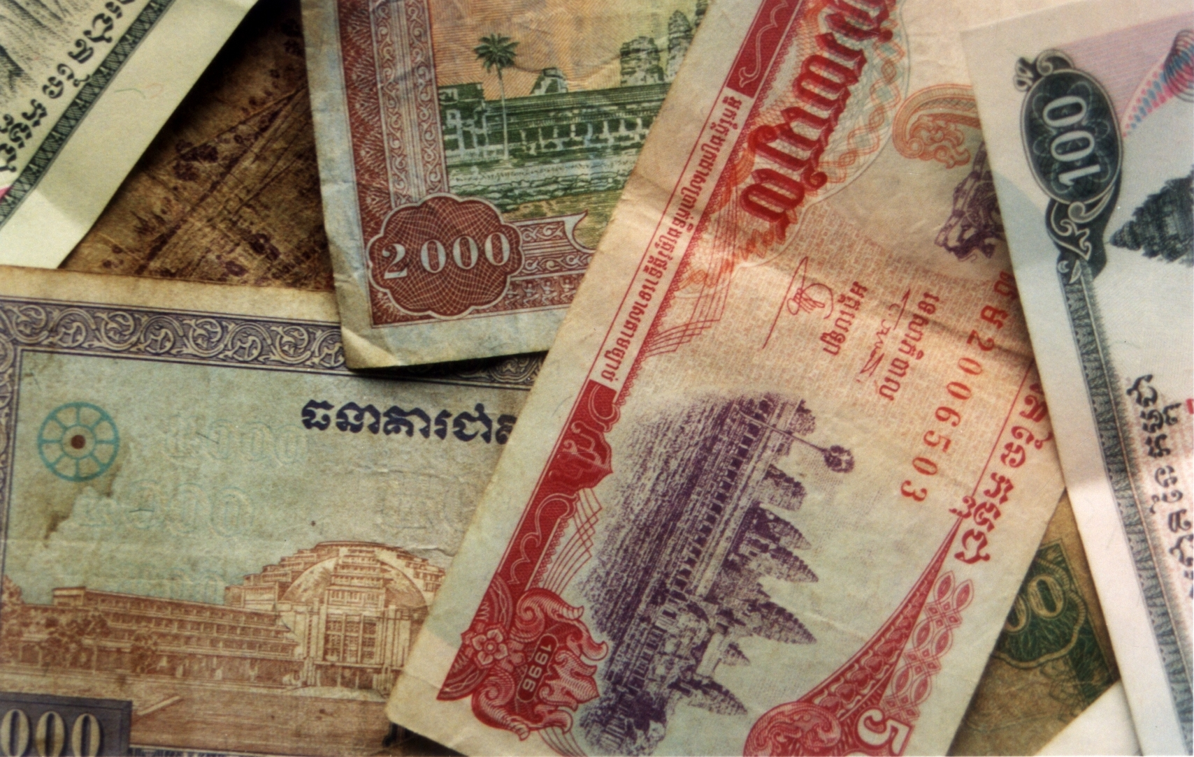 Scanned photograph of Cambodian currency (Reil) circa 2000. Some notes now superseded but all still legal tender. Includes 100, 200, 500, 2000 and 5000 Reil denominations.